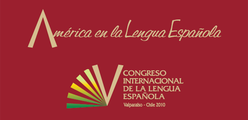 V Congreso Internacional de la Lengua Española logo